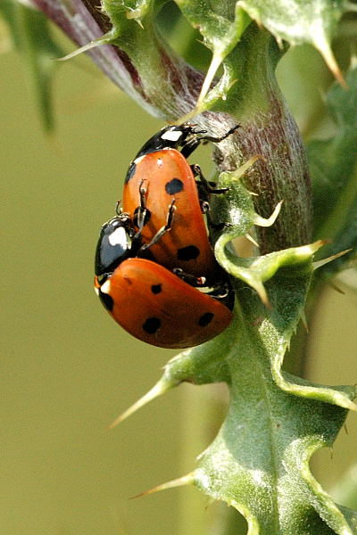 Picture taken in Commanster, Belgian High Ardennes . Species: Coccinella 7-punctata couple